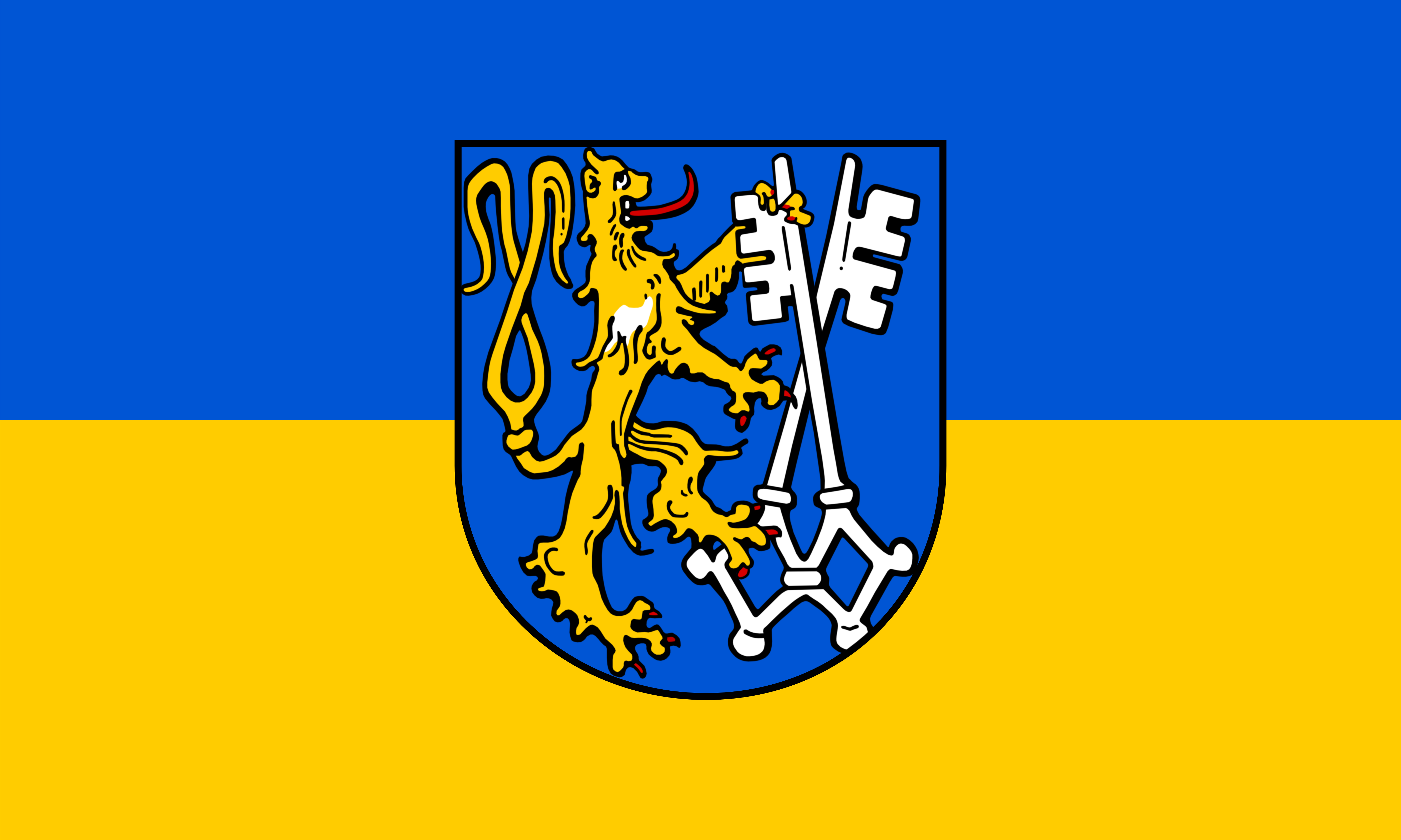 Flag of the city of Liegnitz (today Legnica)